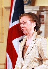 Tthe Right Honorable Margaret Beckett, M.P., Secretary of State for Foreign and Commonwealth Affairs of the United Kingdom of Great Britain and Northern Ireland.